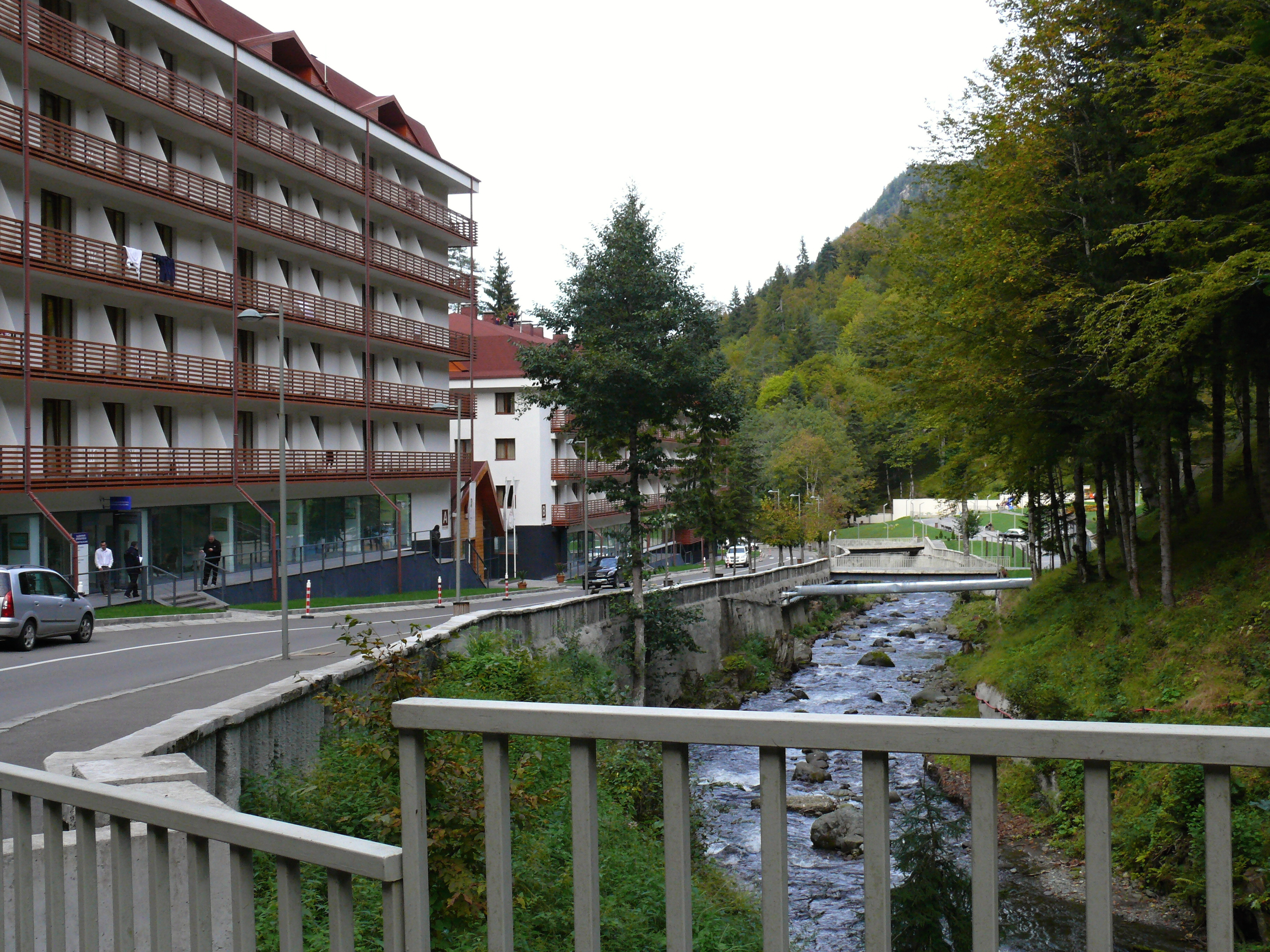 Tsablaristskali river in Sairme 2014